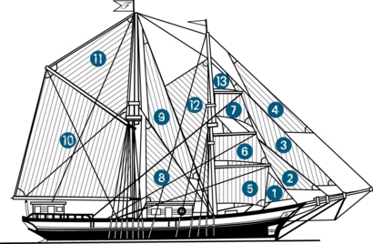 Takelage Brigantine Florette